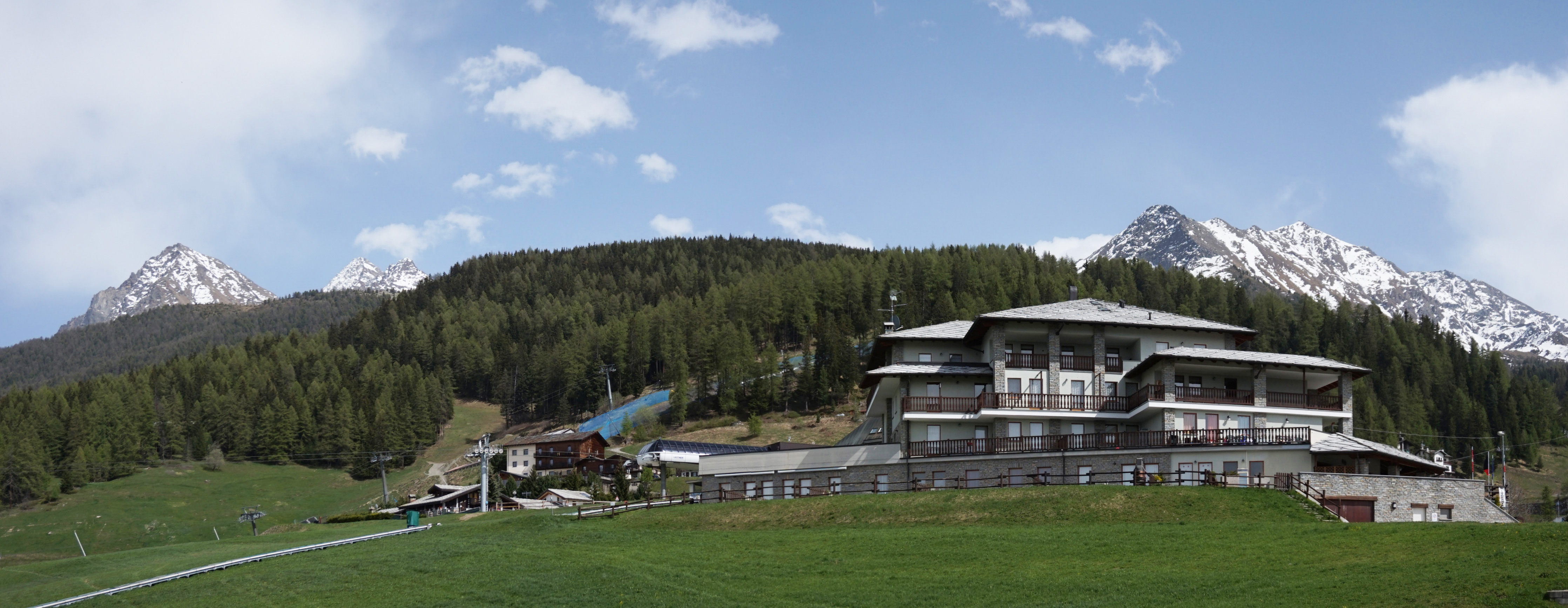 Pila, Aosta Valley in Italy.This photograph was taken with a Sony ILCE-5000